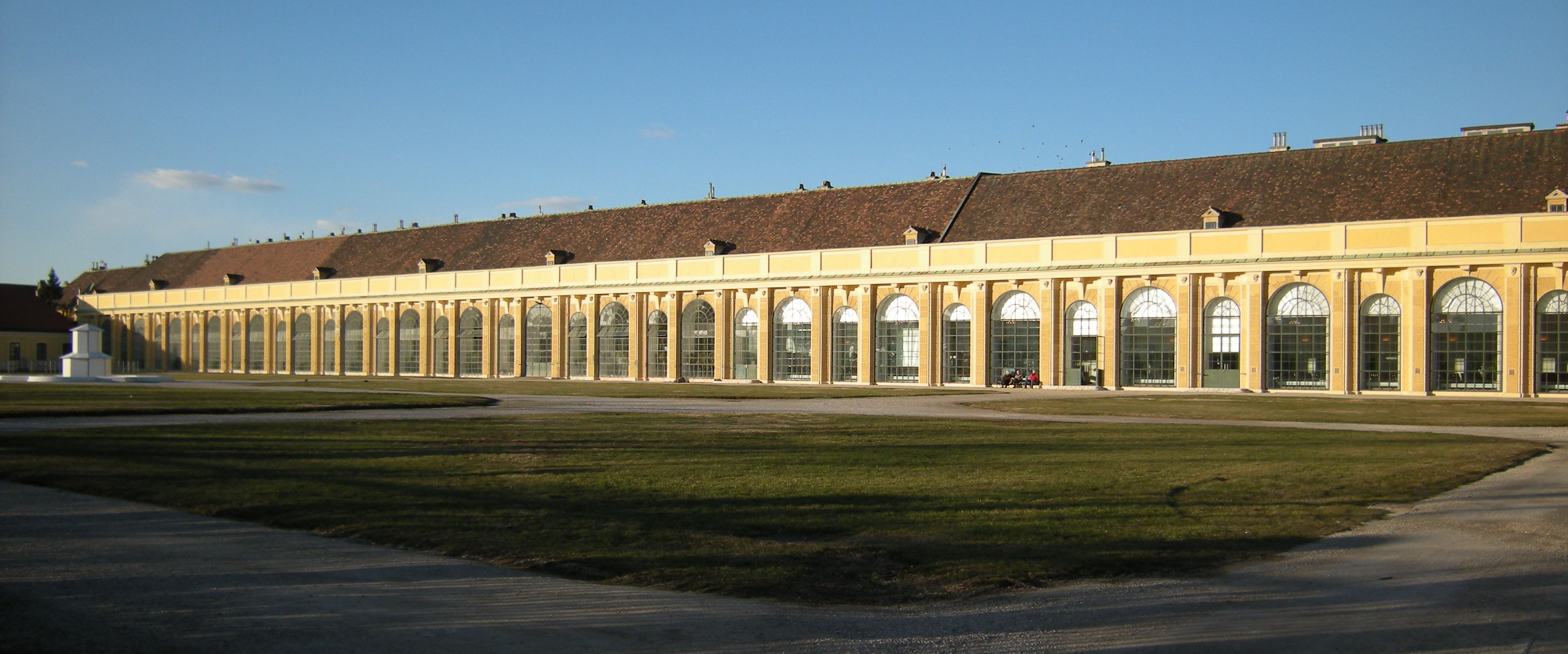 Orangery of Schönbrunn Palace, Vienna.